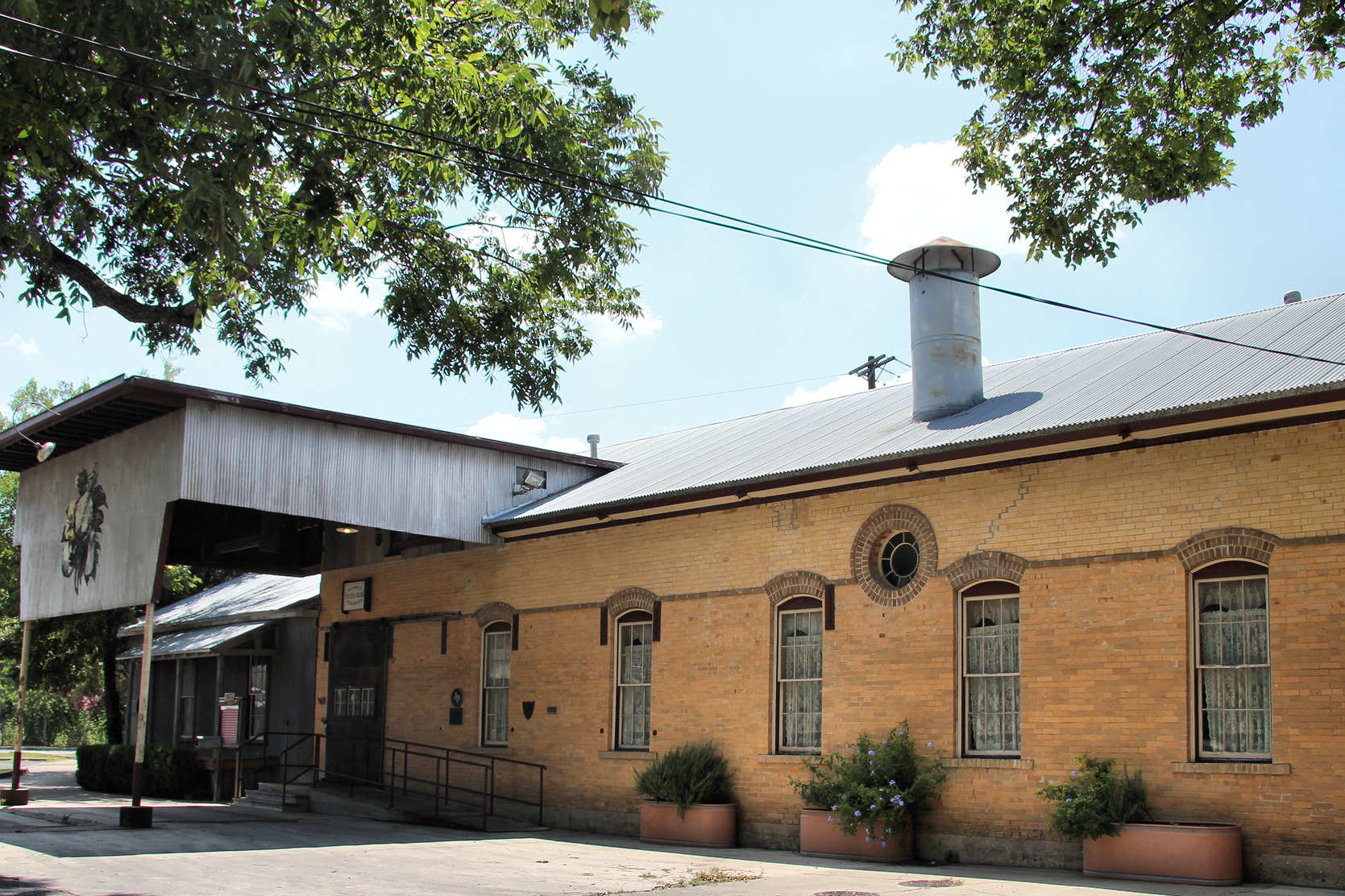 The Farmers Union Gin Company former cotton gin in San Marcos, Texas, United States. The building has been converted to a restaurant. The building was designated a Recorded Texas Historic Landmark in 1981 and listed on The National Register of Historic Places on August 26, 1983.